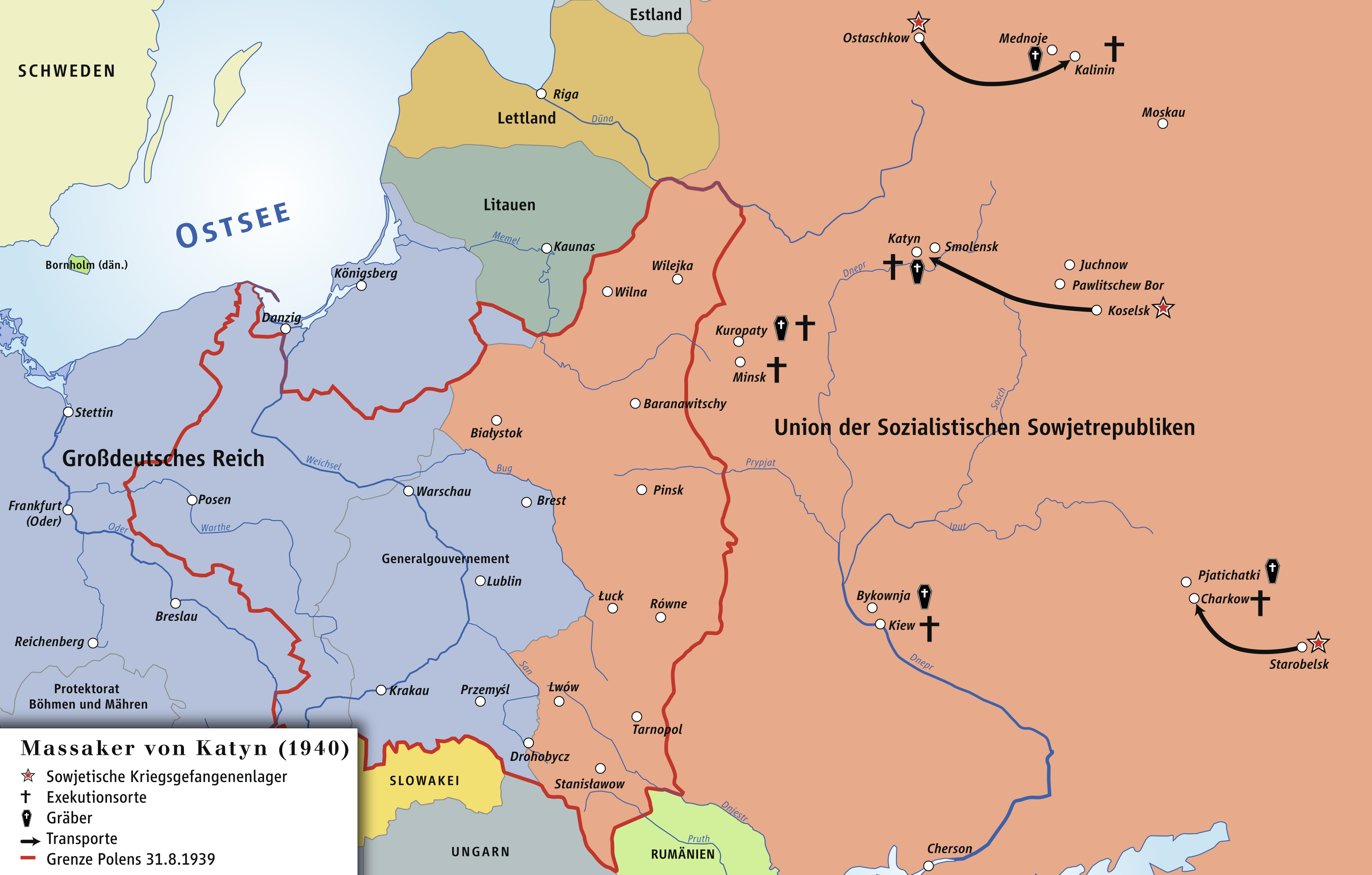 Map of the Massacre of Katyn